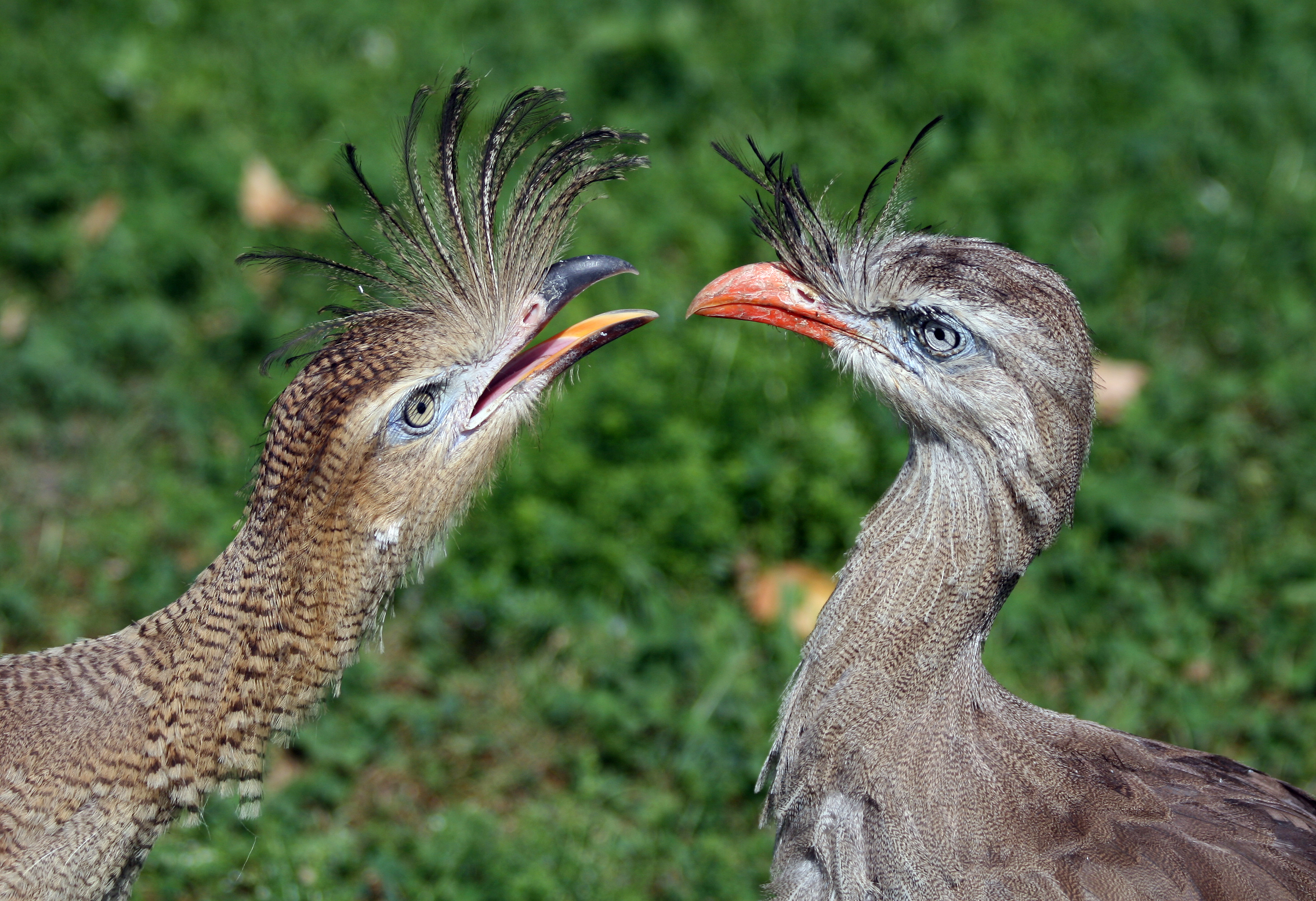 Red-legged Seriema (young bird left, adult right) at the Tiergarten Schönbrunn in Vienna